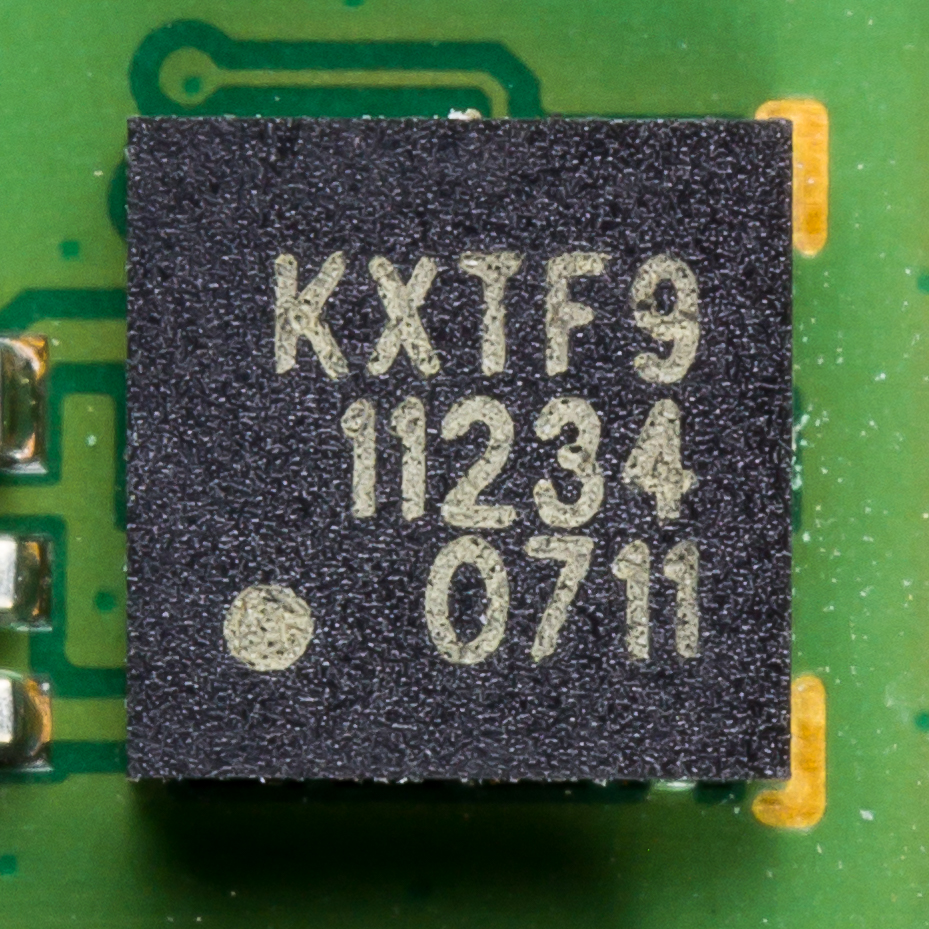 Motorola Xoom - Kionix KXTF9. MEMS Motion Sensing Accelerometer/Tri-axis Digital Accelerometer. Size: 3x3x0.9mm. Package: LGA